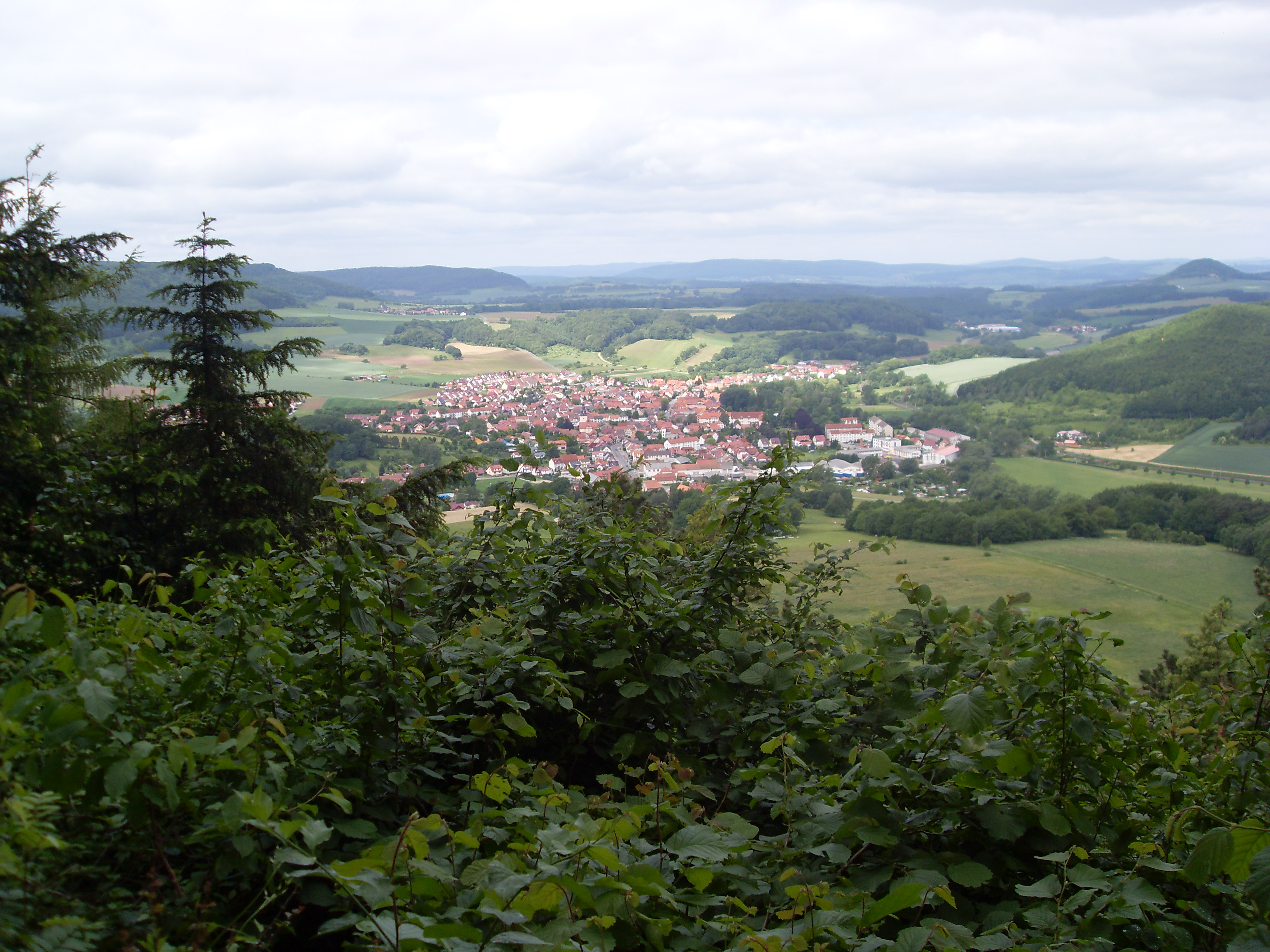 View on Uder, Thuringia, Germany, from Elisabethhöhe